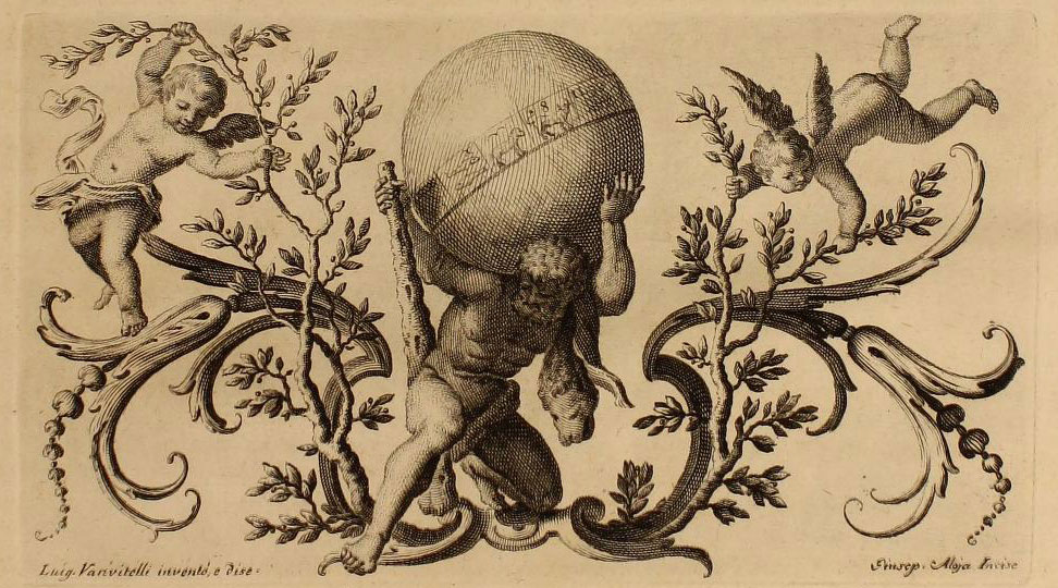 Luigi Vanvitelli ca 1757